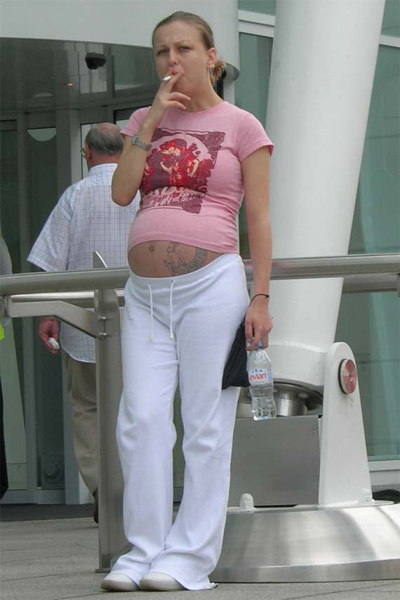 Pregnant woman smoking. London.